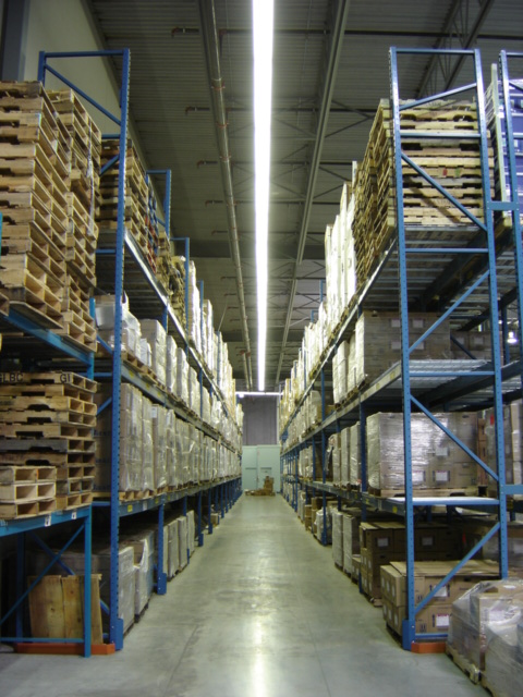 High altitude pallet racks in a foodstock warehouse